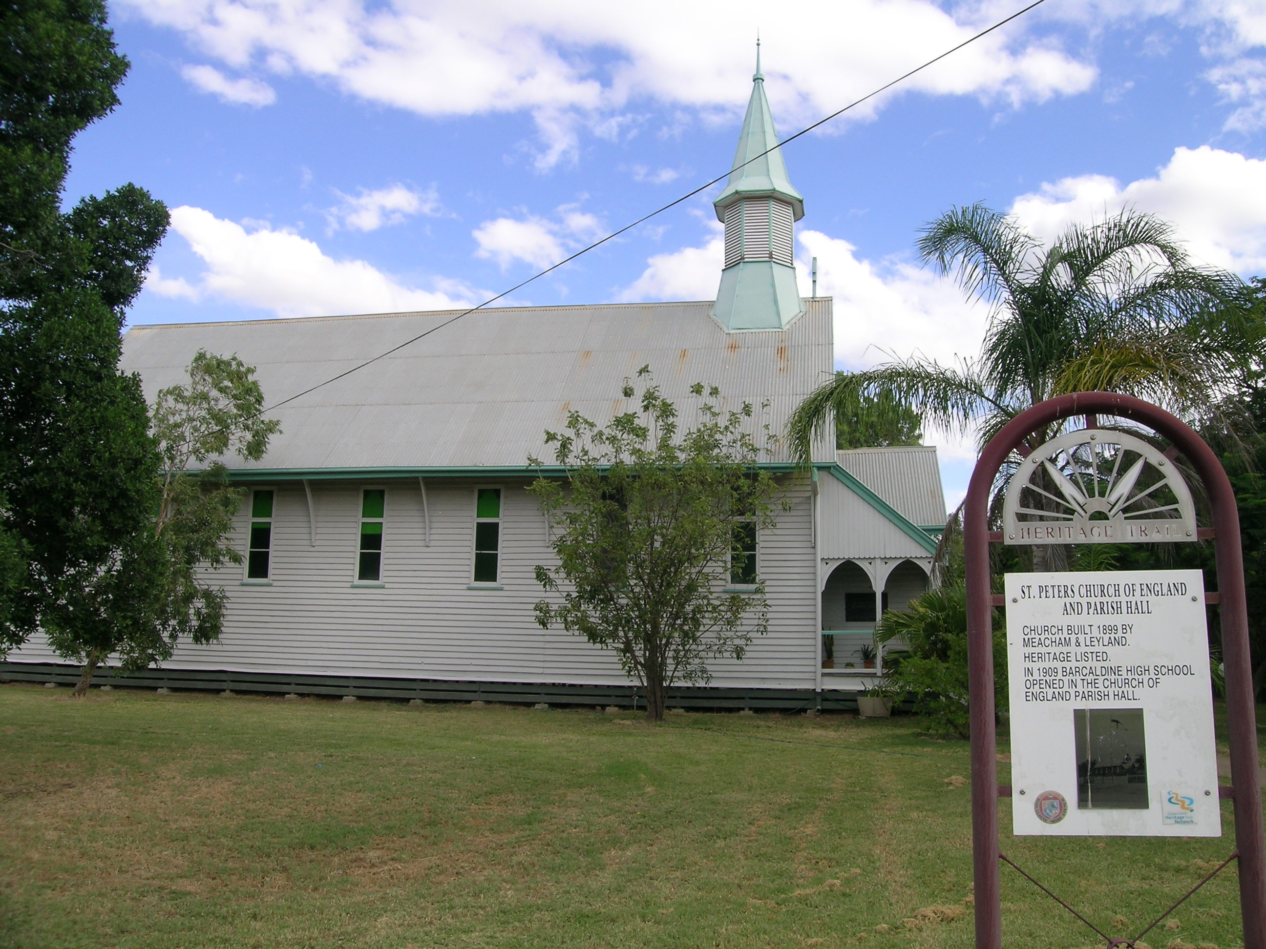 The heritage listed St Peters Church of England, Barcaldine, QLD.